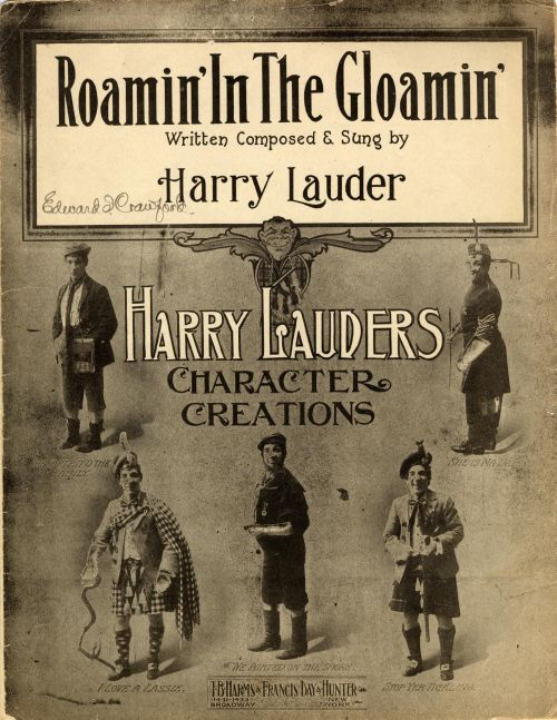 cover sheet music-1911-public domain